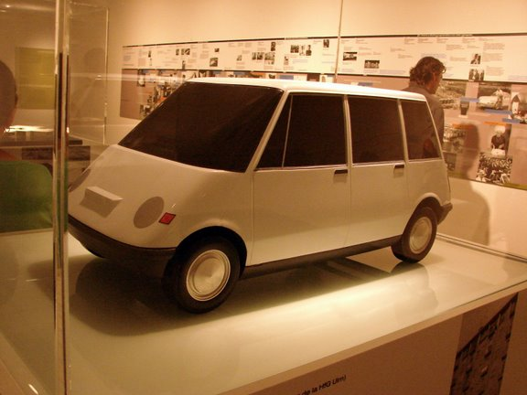 Car designed at HfG of Ulm